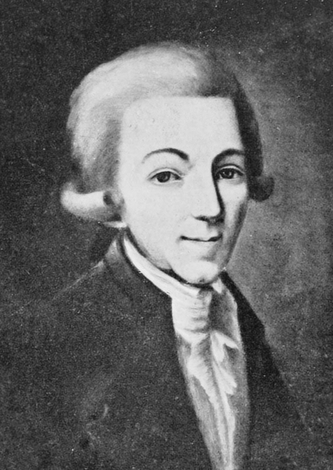 Elie Salomon Francois Reverdil.